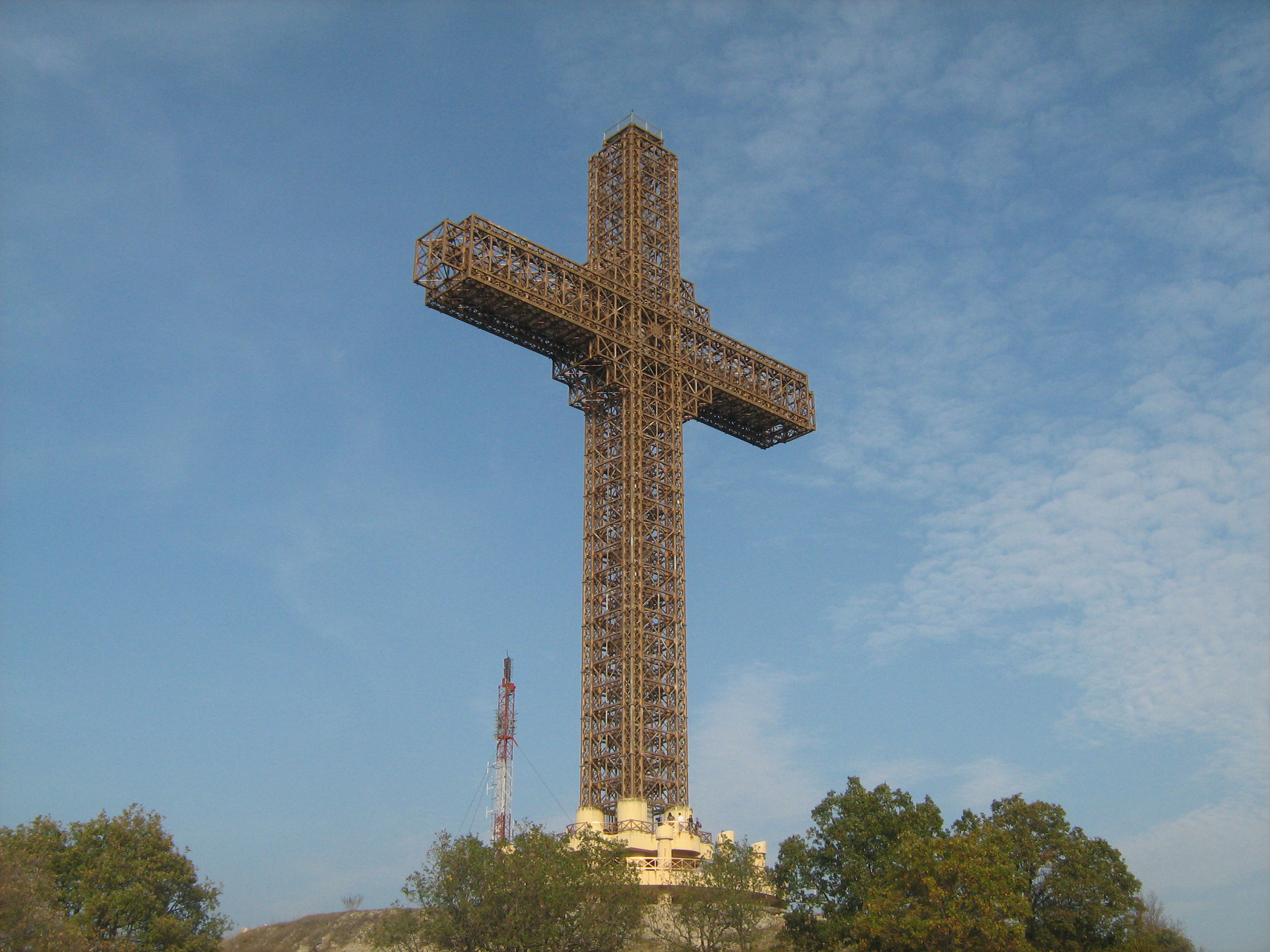 Millennium Cross in Skopje.